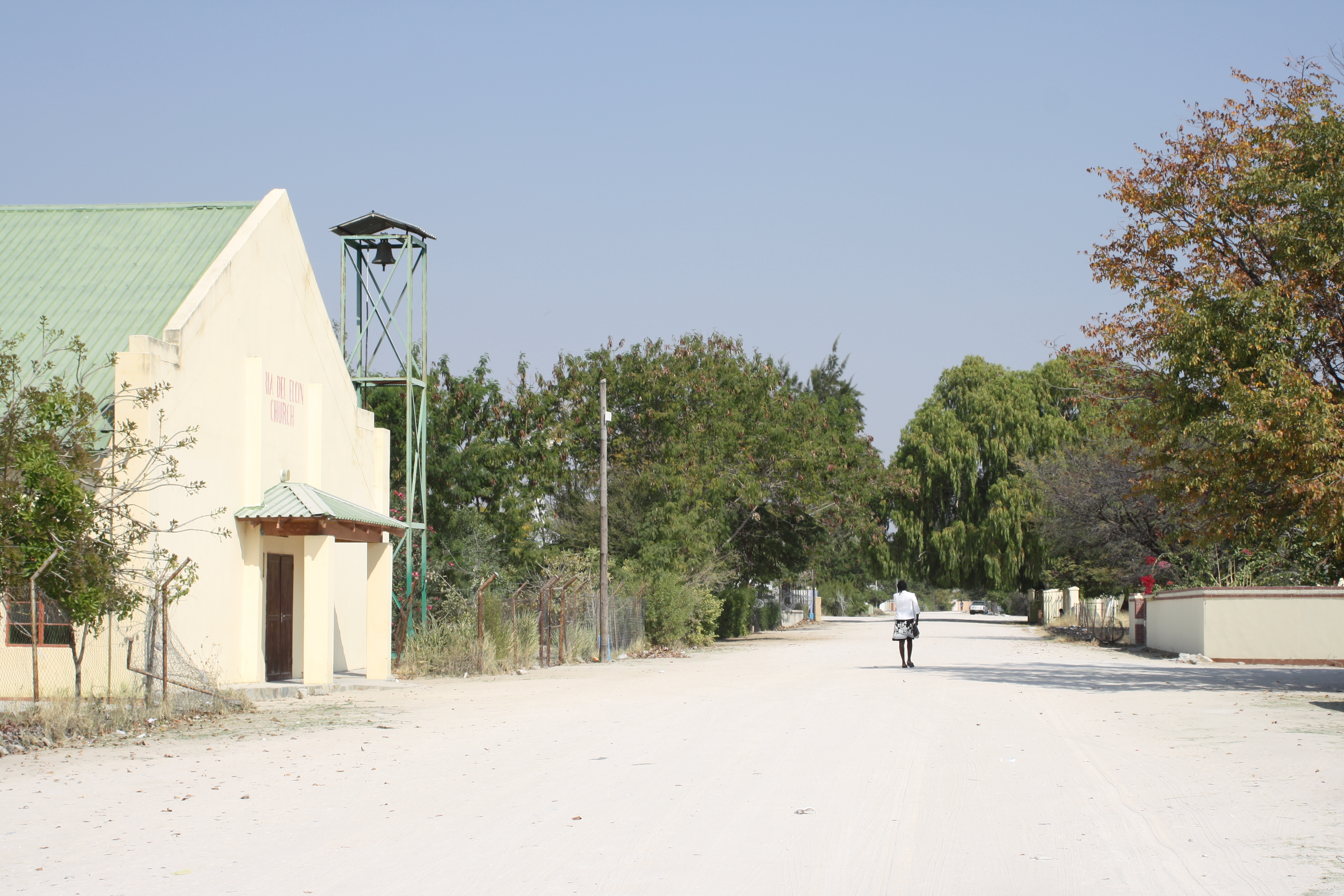 Evangelical Lutheran Church in Namibia (ELCIN) church in Ongwediva, Namibia